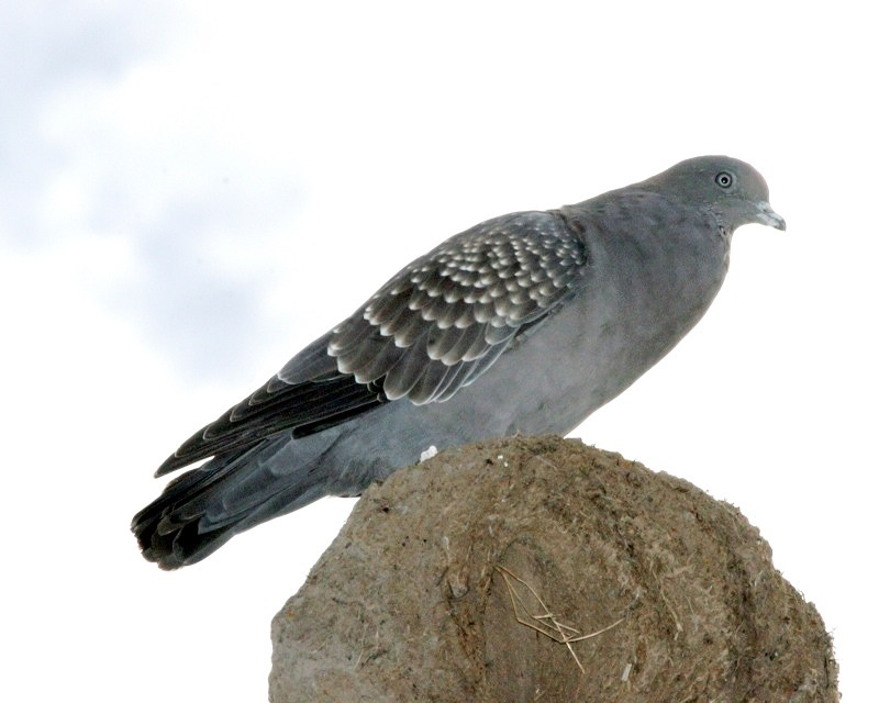 Spot-winged Pigeon (Patagioenas maculosa) at Ibera Marshes, Argentina.